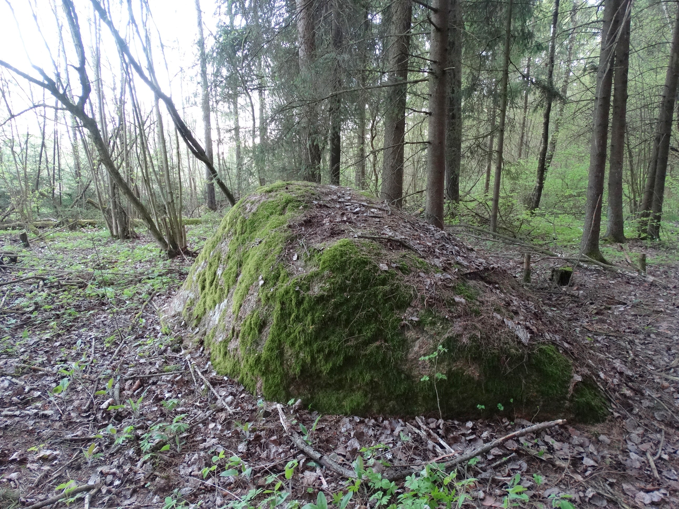 Kaniūkai Stone, Šalčininkai District, Lithuania